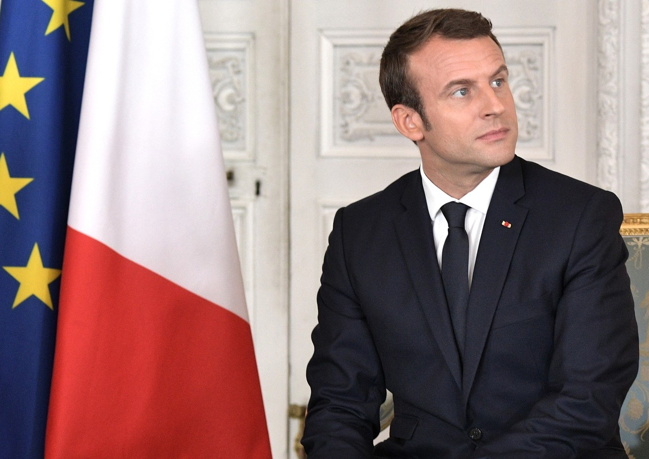 The French president Emmanuel Macron, during a meeting with the Russian president Vladimir Putin (Versailles).